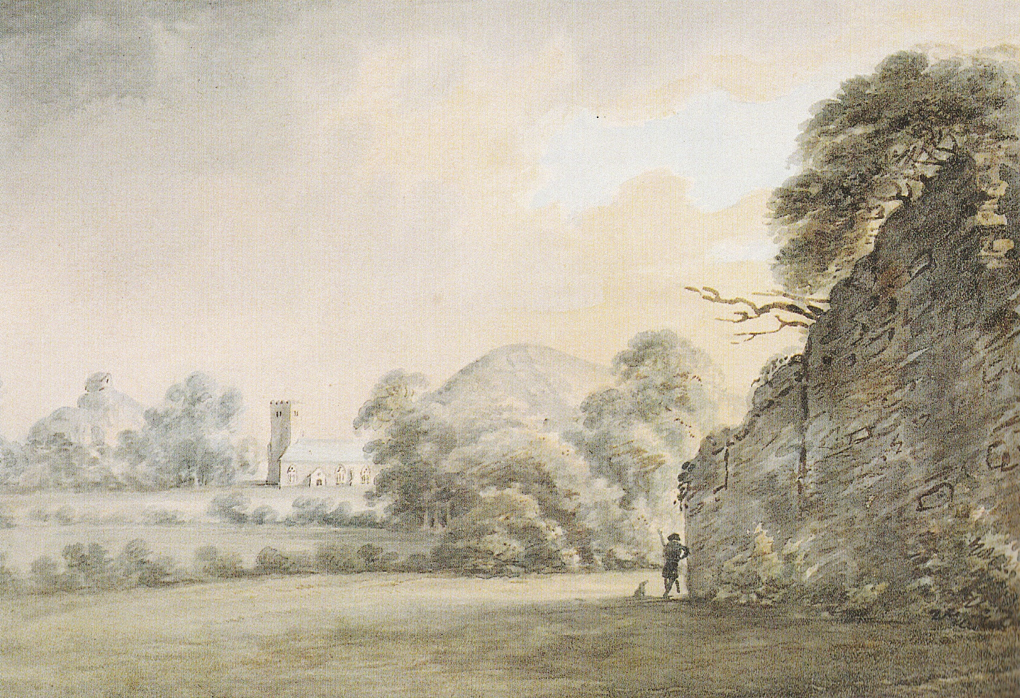 View entitled "Torr Church and Chapel", watercolour by Rev. John Swete, November 1793. St Saviour's Church, Tor Mohun, Devon, today subsumed within the Victorian seaside resort town of Torquay, and used as the Greek Orthodox Church of St Andrew. Devon Record Office DRO 564M/F4/72